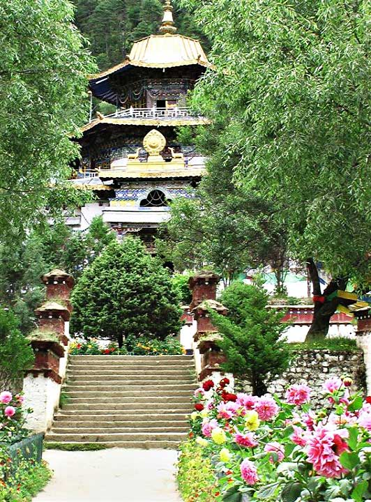 Lamaling Monastery, Tibet (NB: original uploader put question mark on whether this is Lamaling at the summary five days after the upload. I (Davin7) found this link which is another photograph which shows that this must be Lamaling indeed)